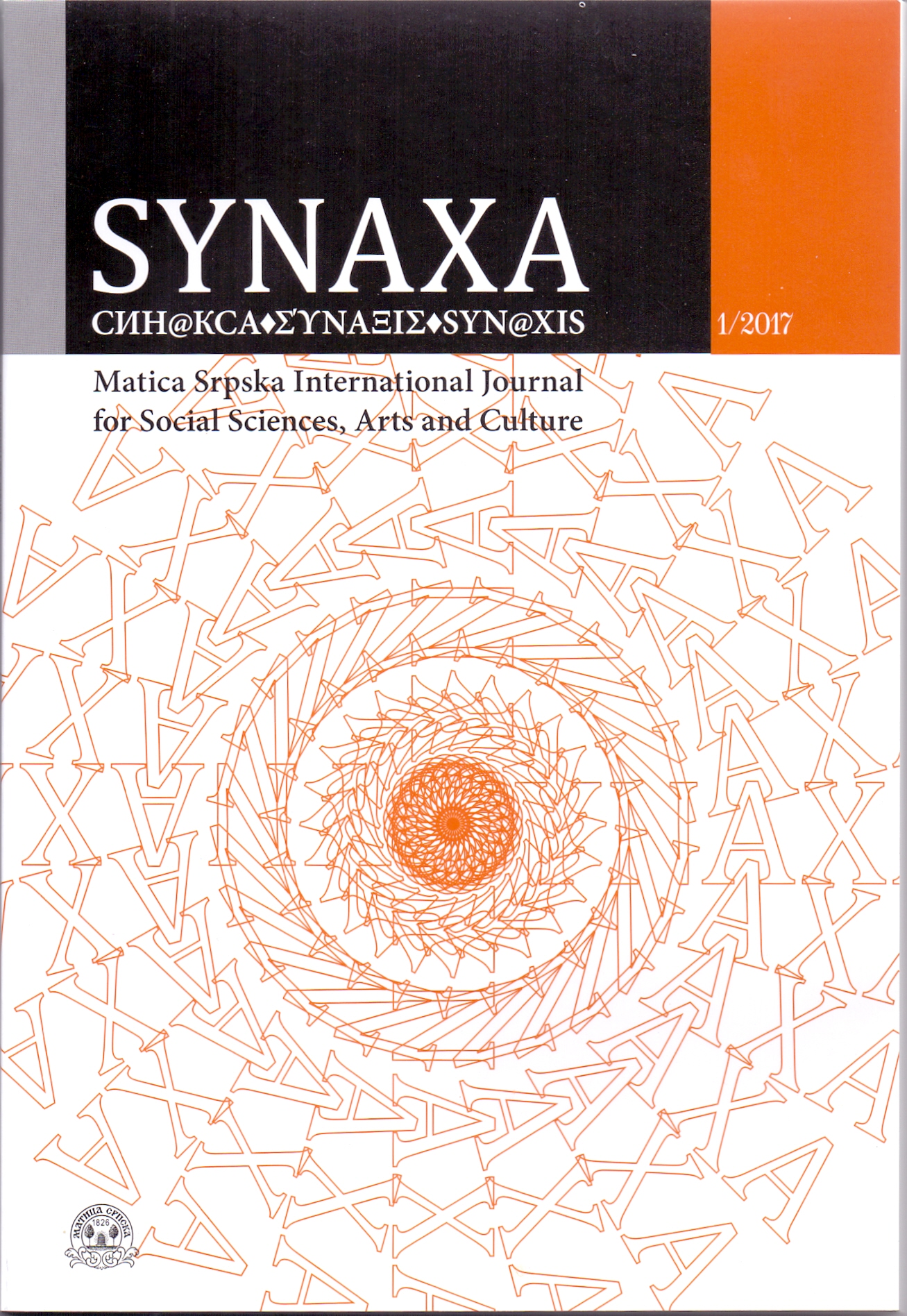 Cover of Serbian scientific journal Synaxa published by Matica srpska, Novi Sad, Serbia